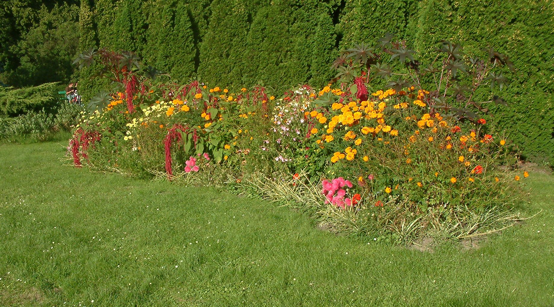 Botanical Garden in Poznań, end of August 2007